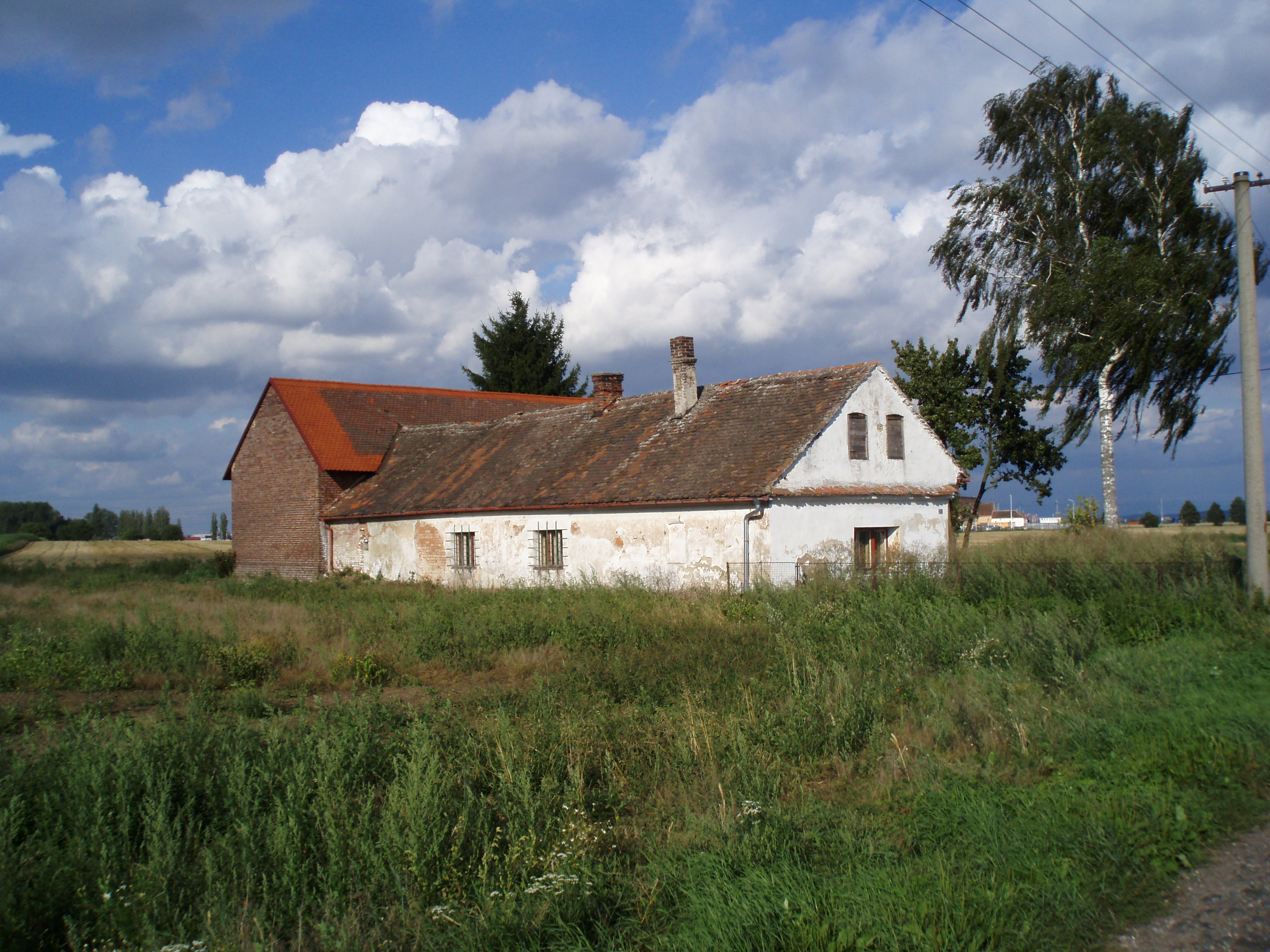 Street U Studánky (Hradec Králové, Czechia)